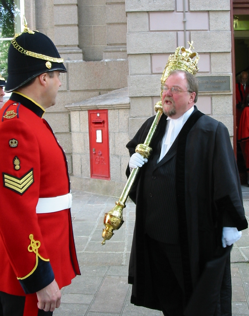 Mace bearer, Liberation Day 2008, Jersey